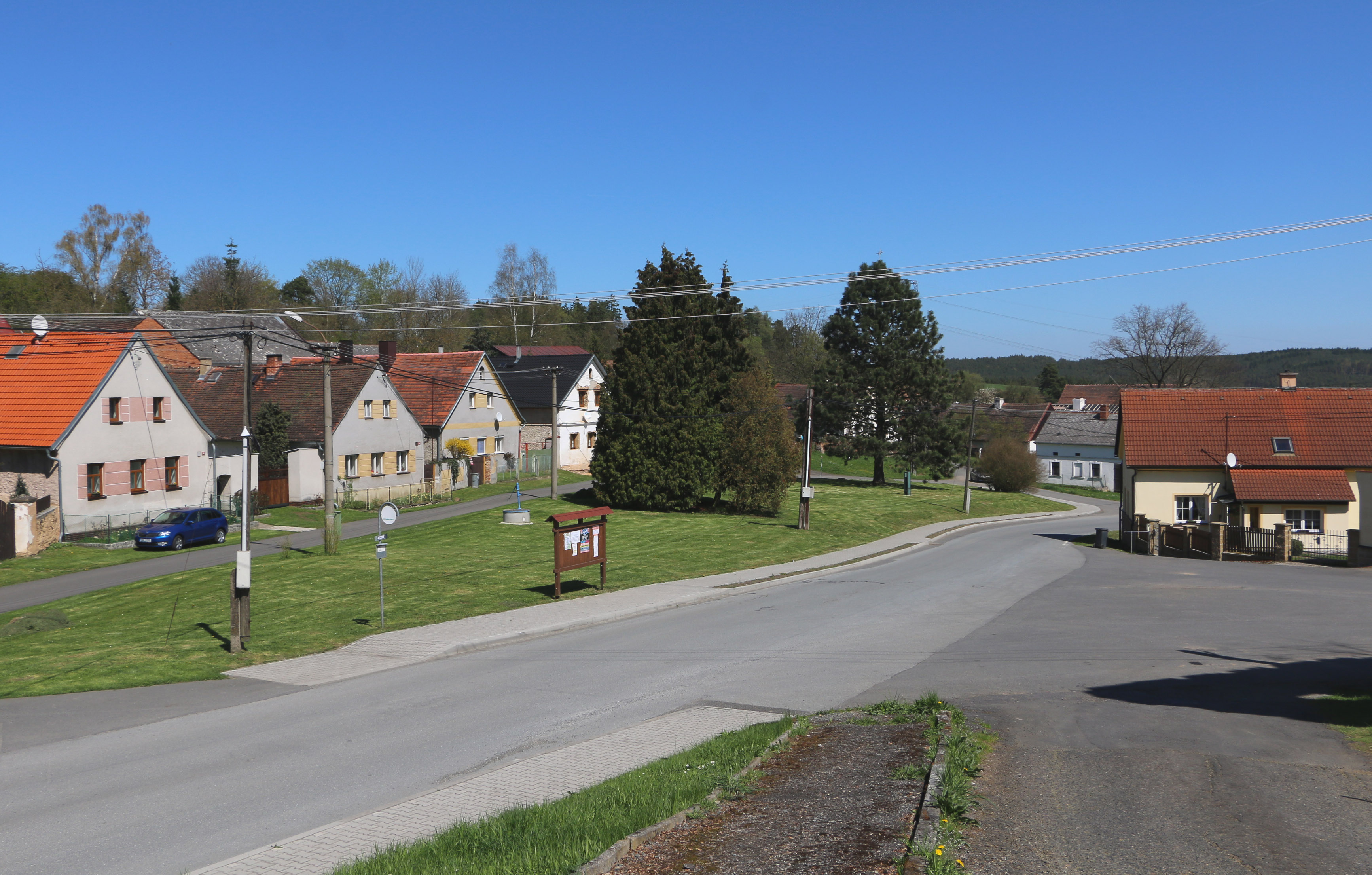 Common in Ošelín, Czech Republic.